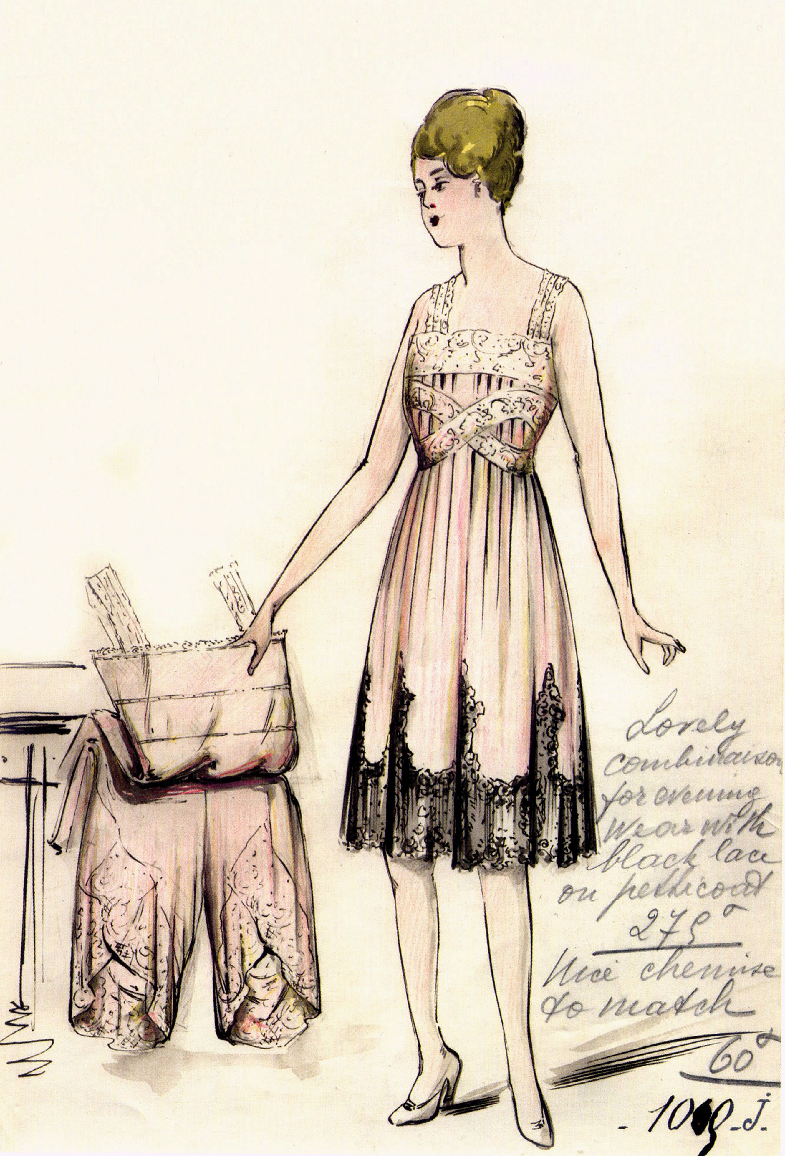 From the collection of the House of Worth.